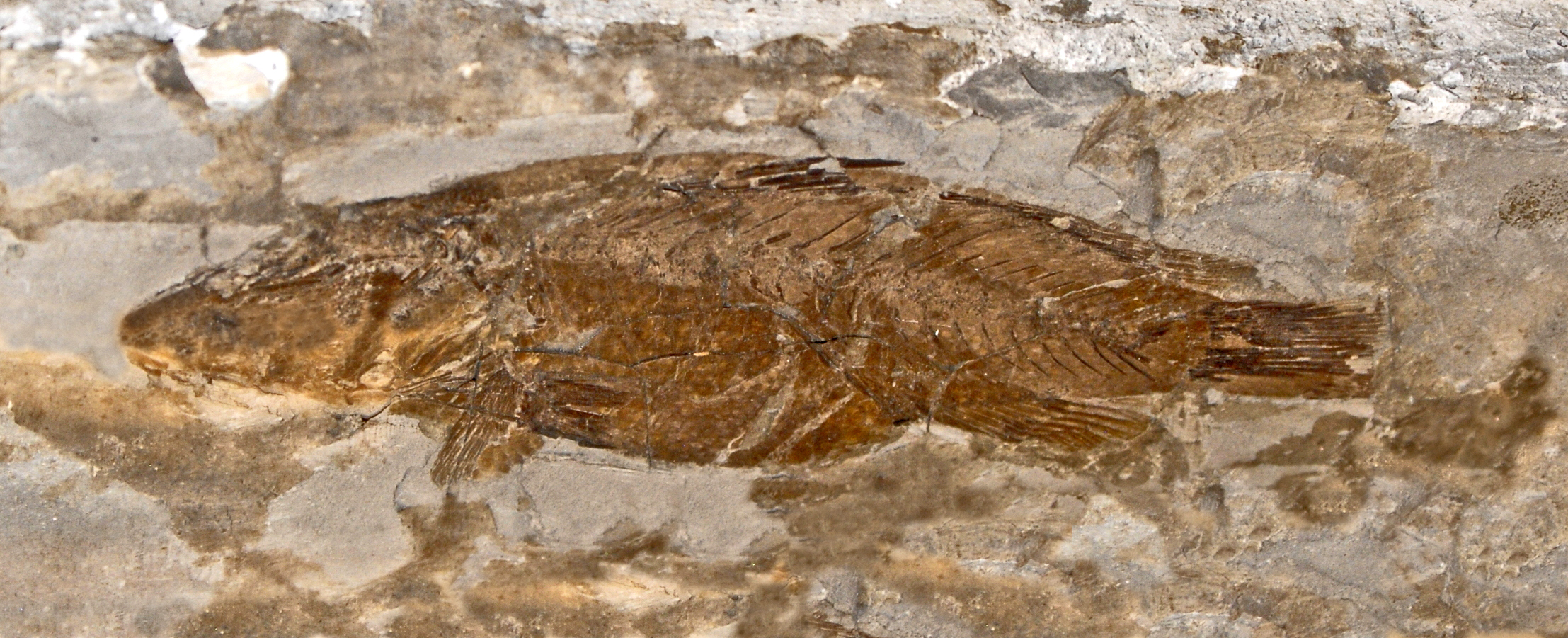 Fossil of Labrus valenciennesii on display at Museo Geologico G. Cappellini, Bologna